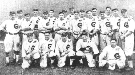 Team photo of 1915 Chicago Whales baseball team.